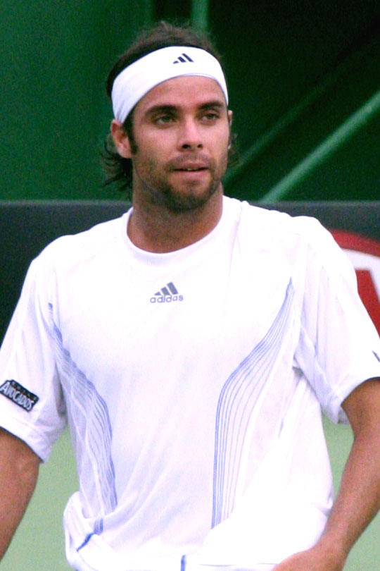 Fernando Gonzalez at the 2007 Australian Open, during his second-round mens match. He was seeded 10th and won after Juan Martin Del Potro retired in the fifth set.